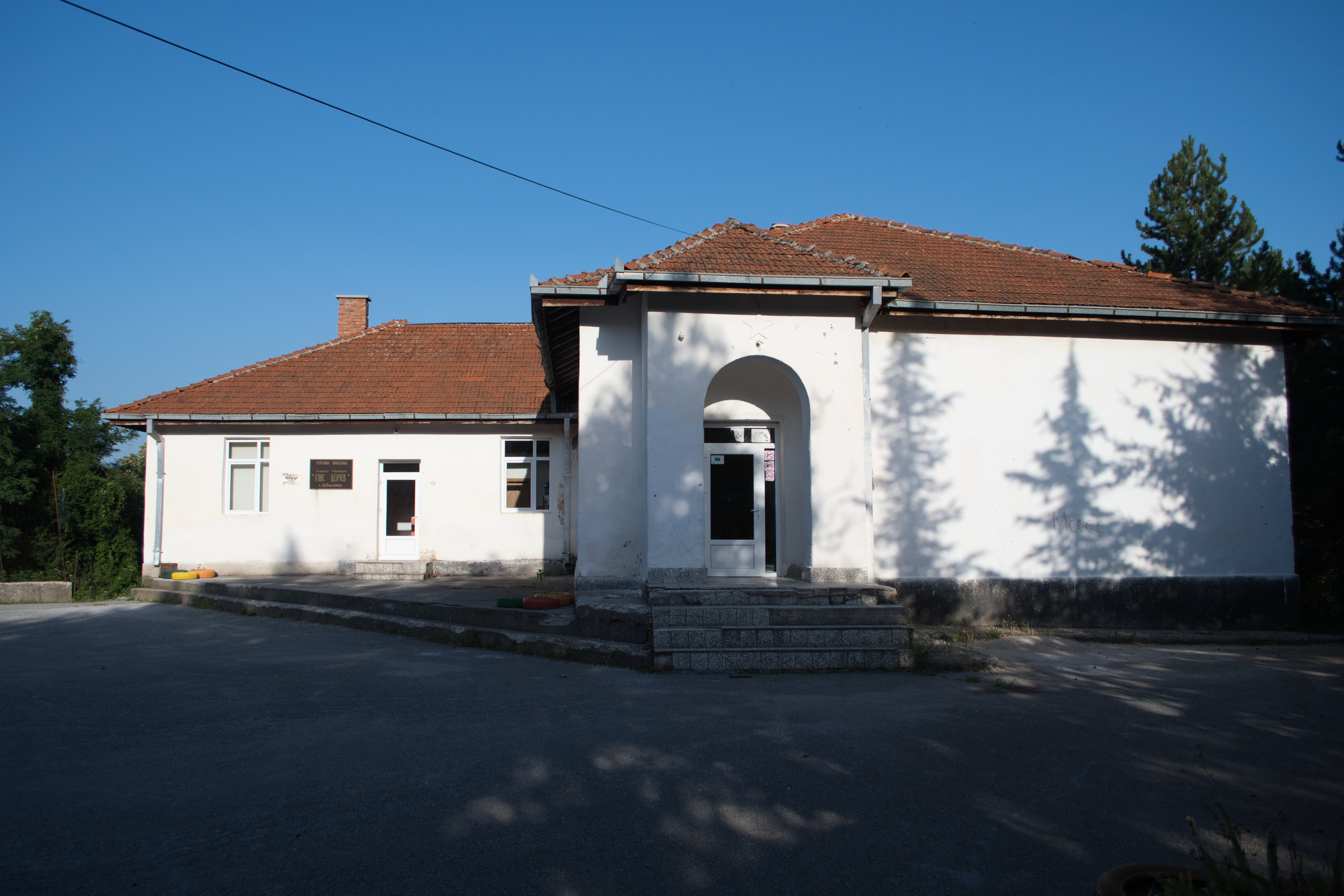 Goce Delčev Primary School in the village of Jablanica